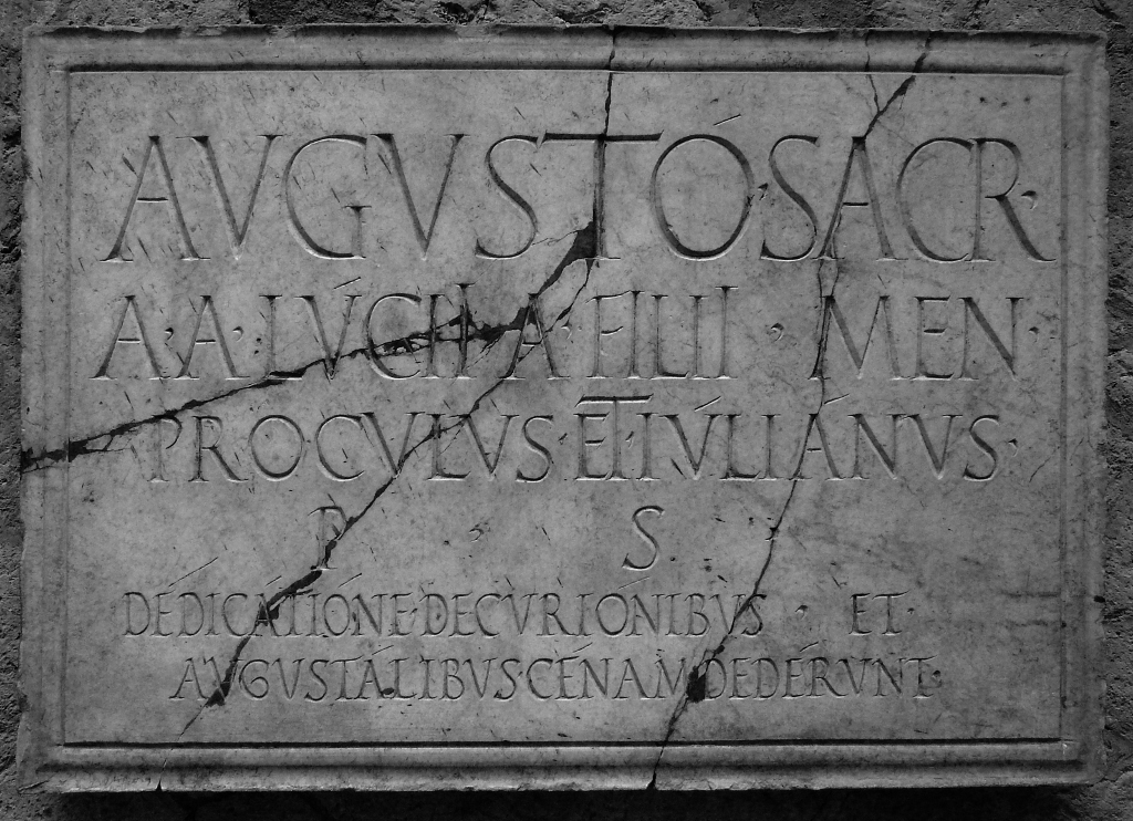 Inscription displaying apices (from the shrine of the Augustales at Herculaneum)